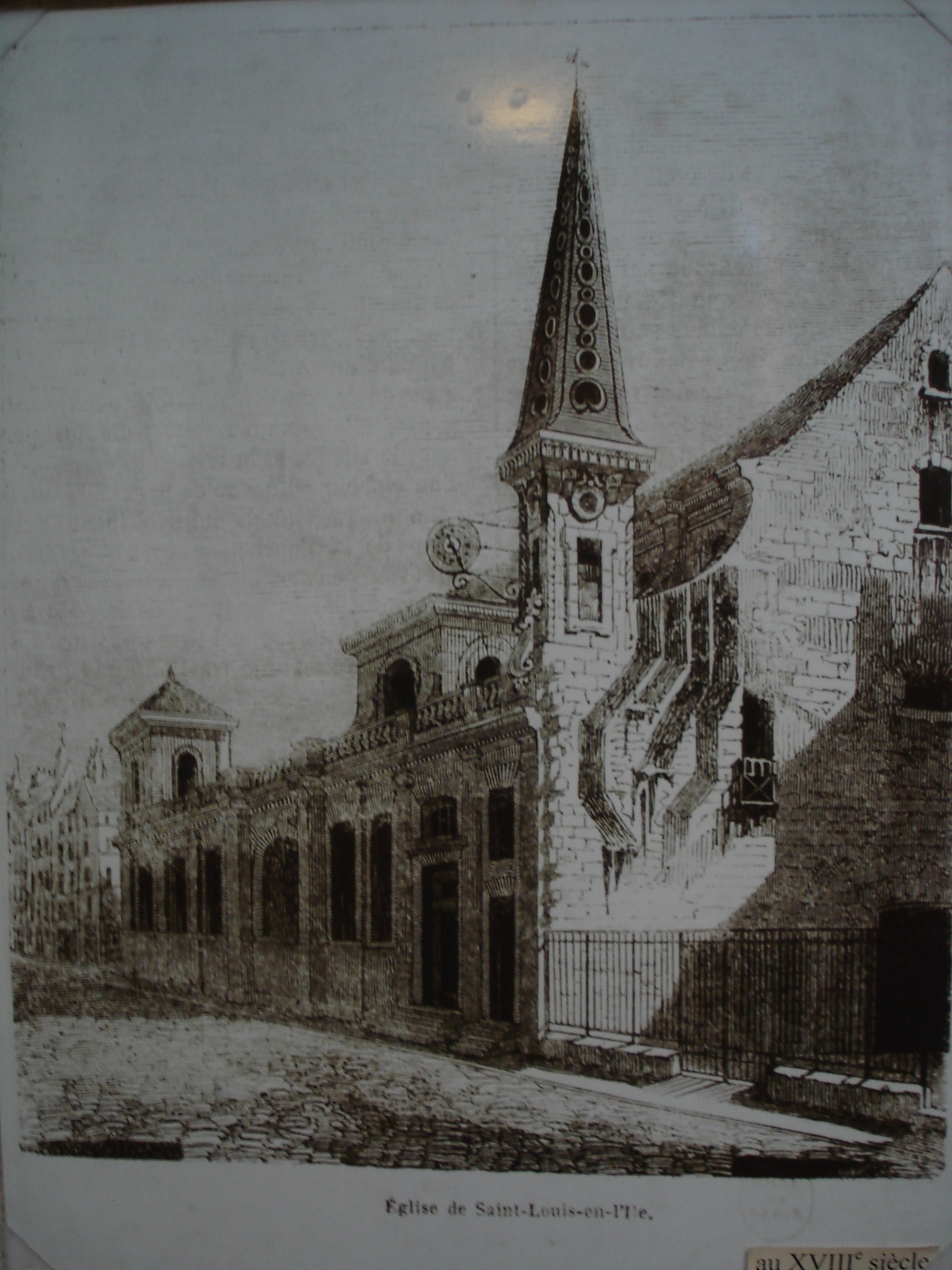 Photo of an engraving of the 18 century, showing the church Saint-Louis-en-l'Île (Île saint-Louis in Paris)